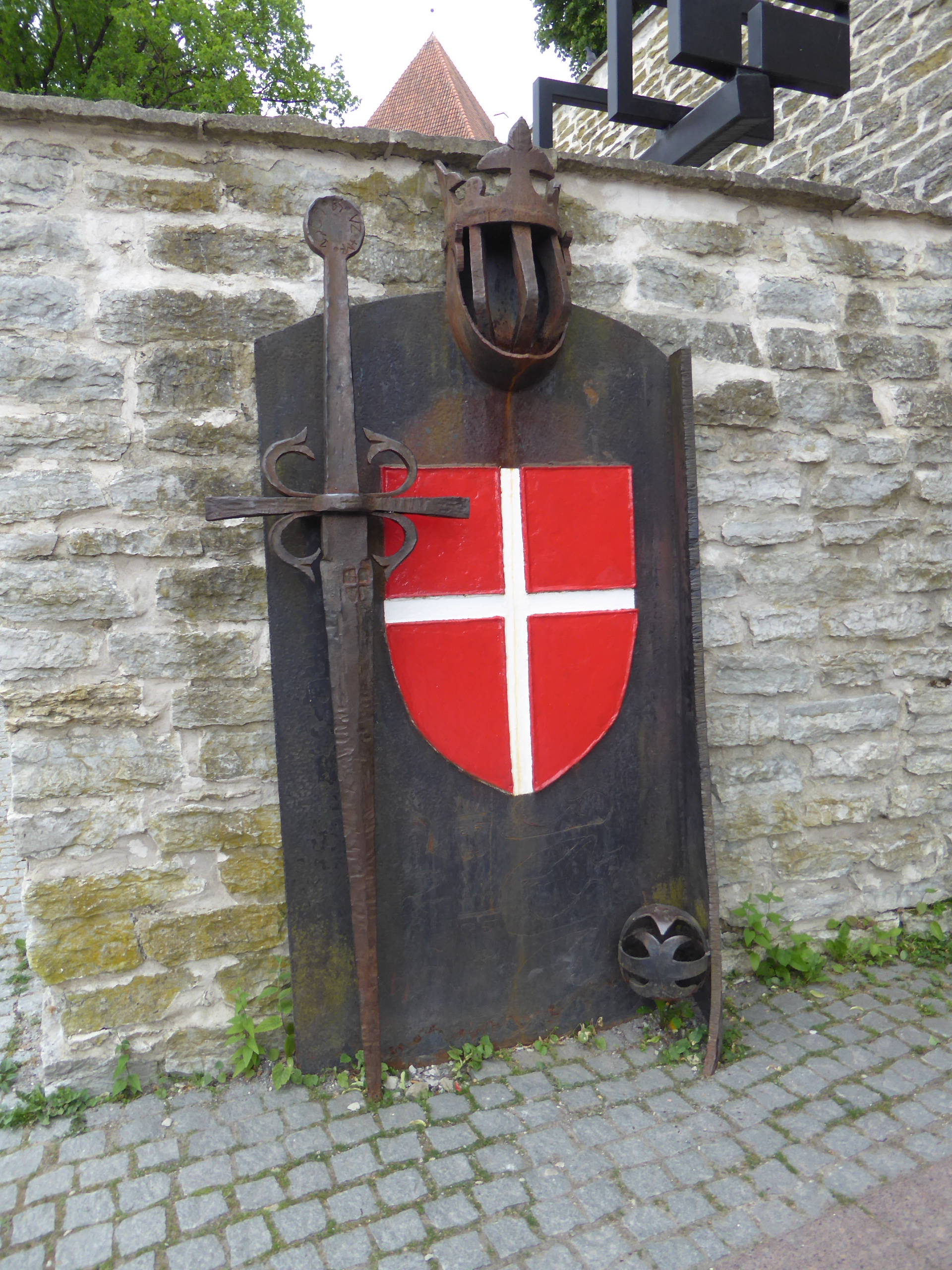 Memorial at Taani Kuninga Aed (Danish King's Garden) in Tallinn. According to a legend the Danish flag Dannebrog fell down the heaven here during a battle between the Danes and the Estonians in 1219.